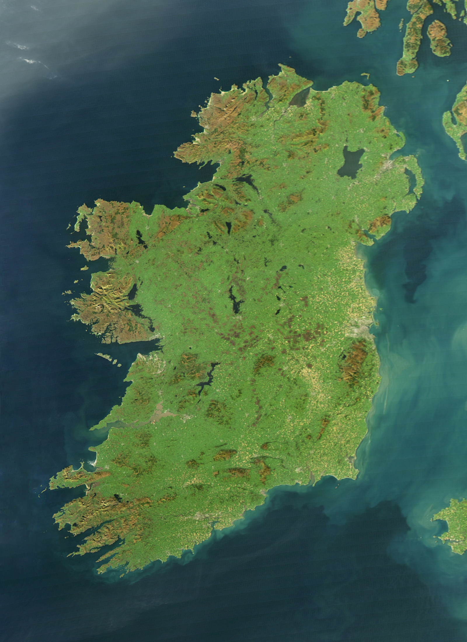 It is easy to see from this true-colour image why Ireland is called the Emerald Isle. Intense green vegetation, primarily grassland, covers most of the country except for the exposed rock on mountaintops. Ireland owes its greenness to moderate temperatures and moist air. The Atlantic Ocean, particularly the warm currents in the North Atlantic Drift, gives the country a more temperate climate than most others at the same latitude.